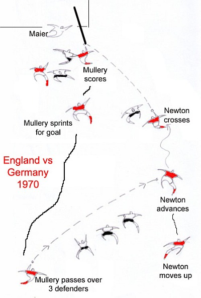 England vs Germany, 1970- illustration of long-ball technique and style. Hurst- Newton-Peters.